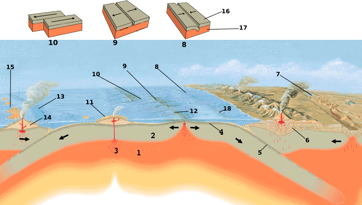 Tectonics plates map internationalized. 1-Asthenosphere; 2-Lithosphere; 3-Hot spot; 4-Oceanic crust; 5-Subducting plate; 6-Continental crust; 7-Continental rift zone (young plate boundary); 8-Convergent boundary plate; 9-Divergent boundary plate; 10-Transform plate boundary; 11-Shield volcano; 12-Oceanic spreading ridge; 13-Convergent plate boundary; 14-Strato volcano; 15-Island arc; 16-Plate 17-Asthenosphere; 18-Trench